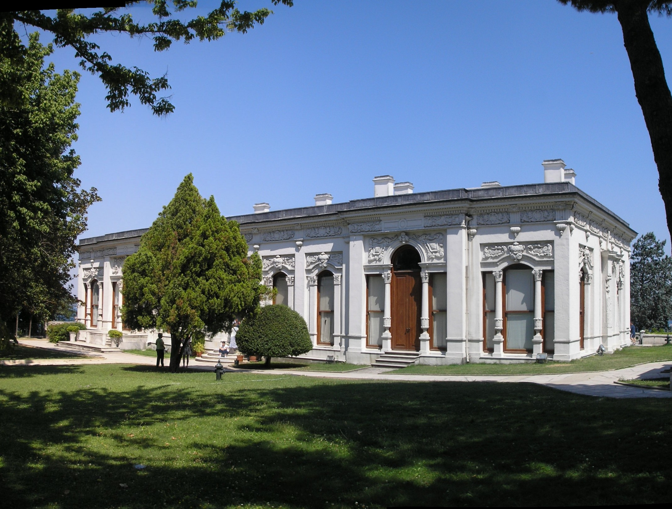 The Grand Pavilion (Mecidiye Köşkü) in the fourth court of the Topkapi Palace, Istanbul This panoramic image was created with Autostitch. Stitched images may differ from reality.